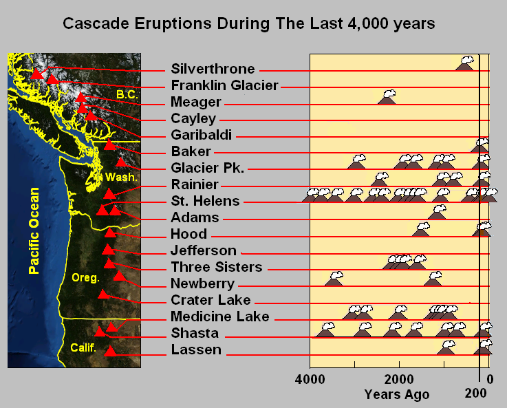 Cascade volcano eruption timescale